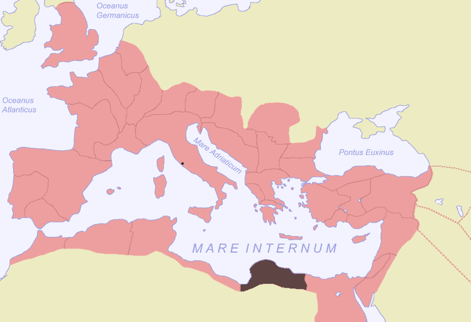 Cyrenaica